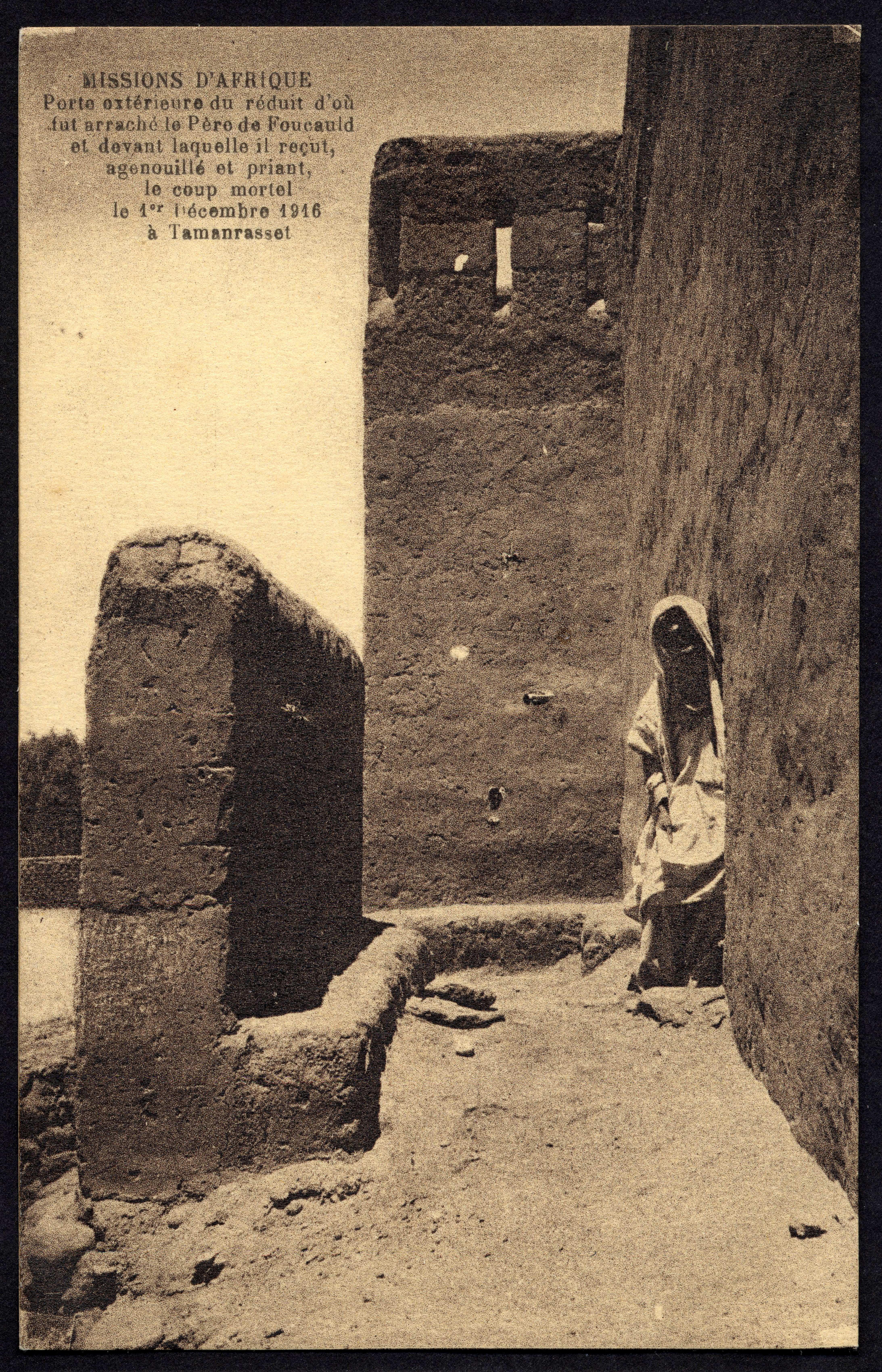 Woman in a doorway, Tamenghest, Algeria, 1916 Missions d'Afrique - Porte exterieure du reduit d'ou fut arrache le Pere de Foucauld et devant laquelle il recut, agenouille et priant, le coup mortel le 1er l'decembre 1916 a Tamanrasset." A woman in a white robe standss near a small doorway in the side of a large stone building.; The back of the postcard is blank and contains printed information about the publisher: "Soeurs Missionnaries de Notre-Dame d'Afrique - Soeurs Blanches - Birmandreis (Alger). Subject (aat): portraits Filename: IMP-YDS-RG101-007-0000-0016 Coverage date: circa 1916 Subject (unesco): Women Part of collection: International Mission Photography Archive, ca.1860-ca.1960 Type: images Part of subcollection: Photographs from the Yale Divinity School Library, New Haven, Connecticut, ca.1880-1950 Repository name: Yale University. Divinity School. Day Missions Library Archival file: impa_Volume221/IMP-YDS-RG101-007-0000-0016.tiff Geographic subject (city or populated place): Tamenghest Previous format (aacr2): photographic postcards, 13.75 x 8.75 cm. Repository address: Yale University Divinity School Library, 409 Prospect Street, New Haven, CT 06511 Geographic subject (country): Algeria Geographic subject (continent): Africa Rights: Yale University. Divinity School. Day Missions Library Part of series: Yale Divinity Library Special Collections; Missionary Postcard Collection Repository Date created: circa 1916 Publisher (of the digital version): University of Southern California. Libraries Format (aat): photographs Legacy record ID: impa-m12876 Access conditions: File: YDS/RG101/007/0000/0016